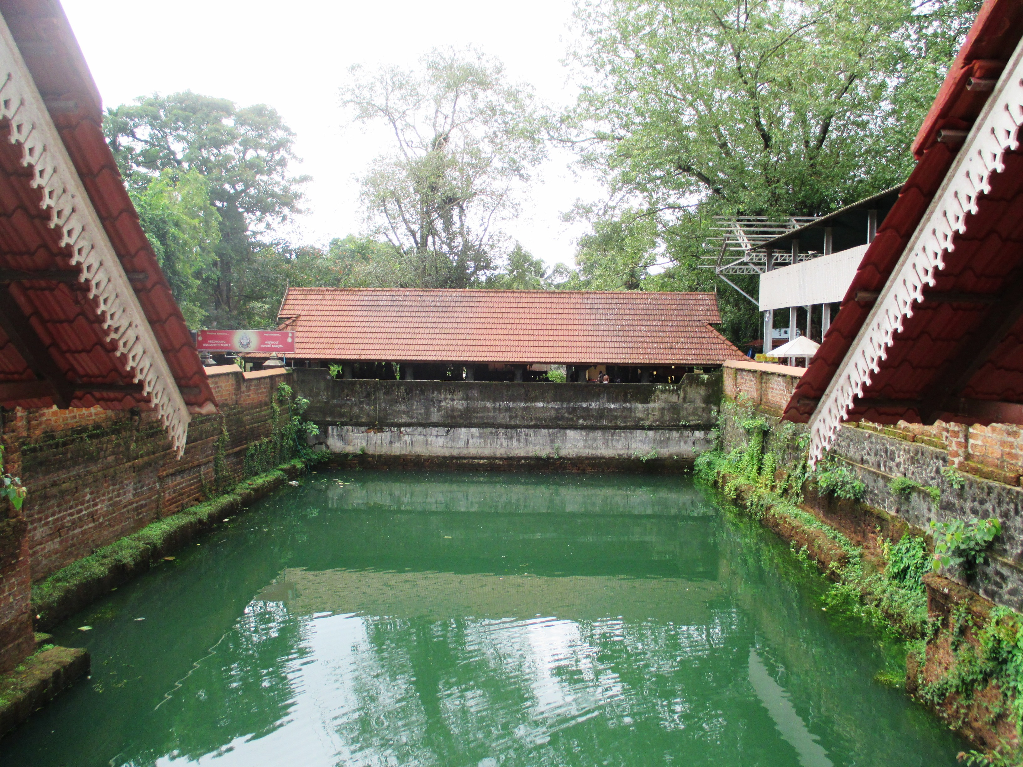 Chottanikkara Temple